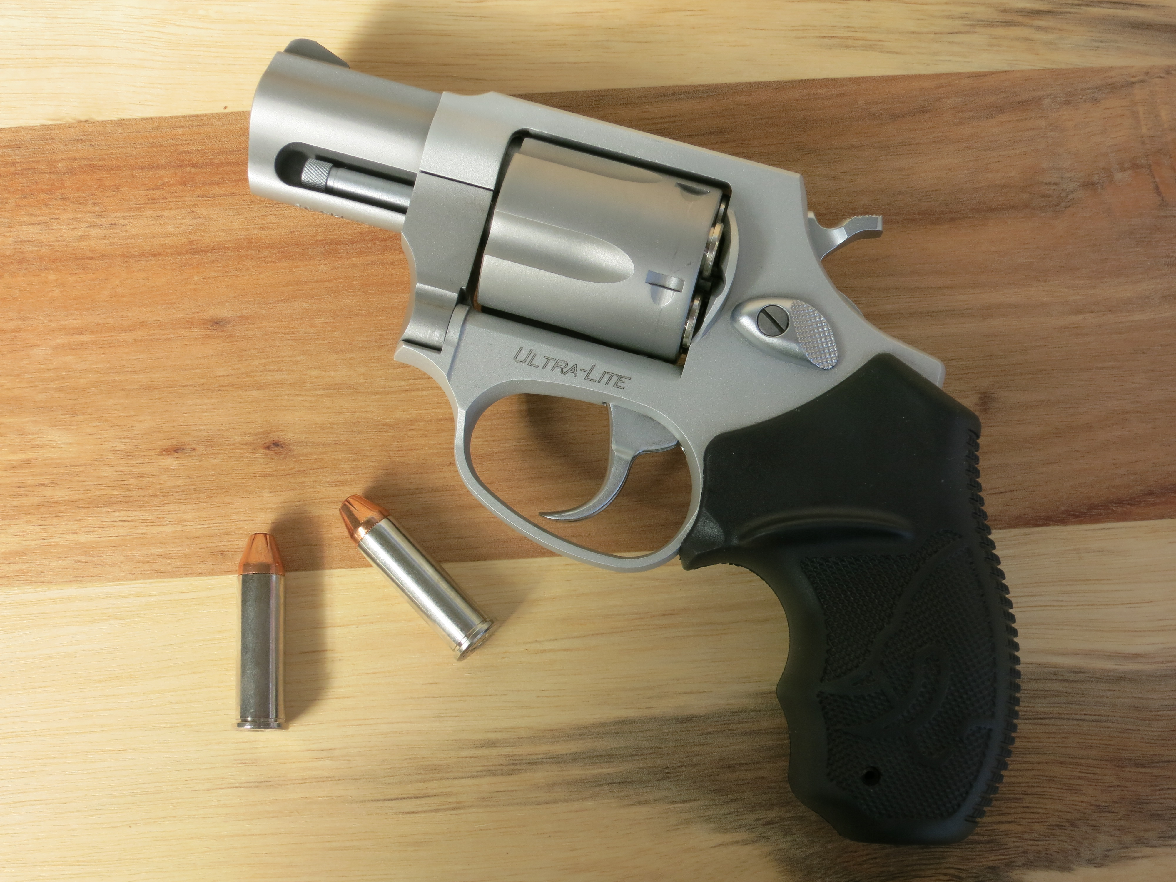 Double Action Revolver .38 Special Made in Brazil